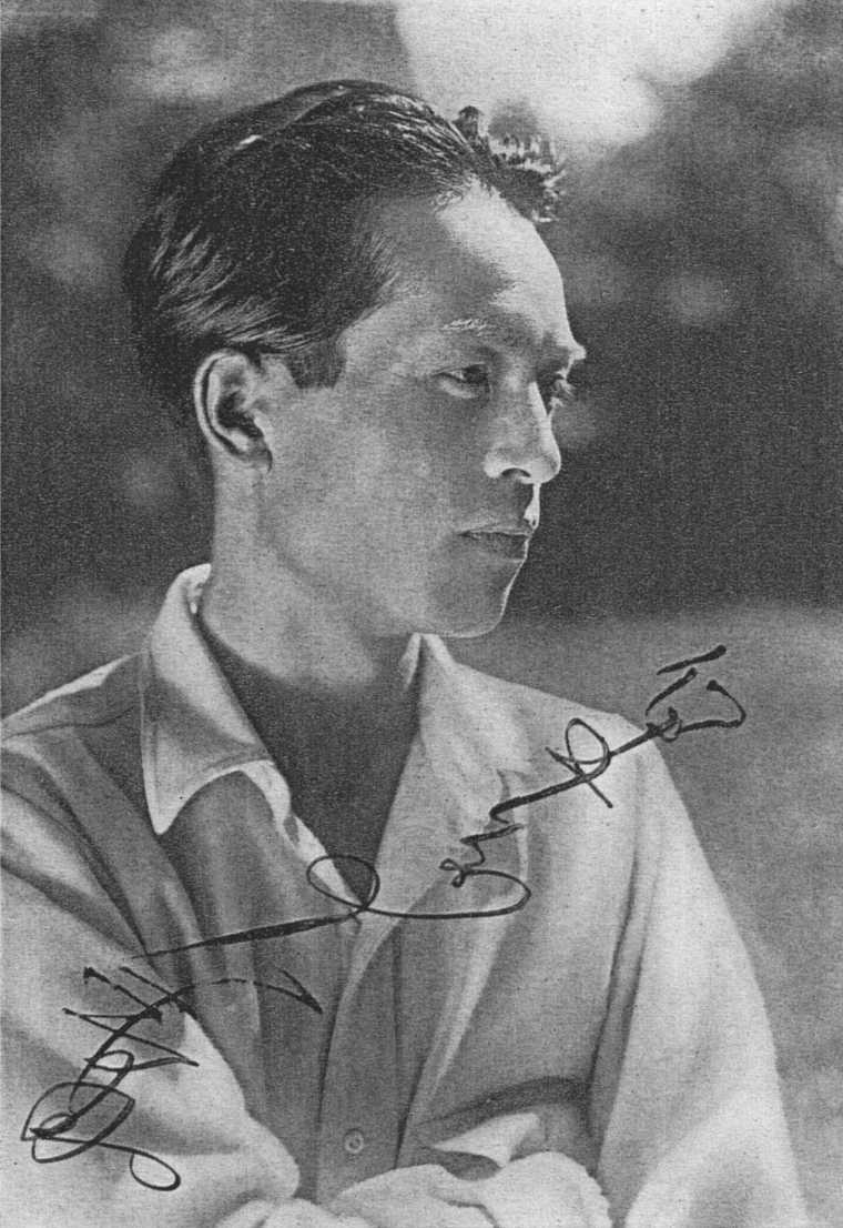 Portrait of the film director Itō Daisuke